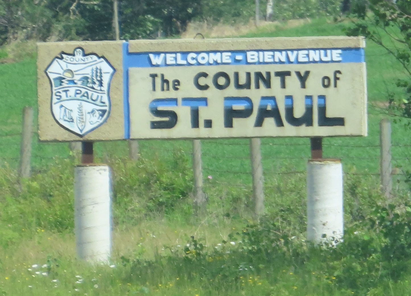 Sign marking the western boundary of the County of St. Paul, Alberta, Canada.